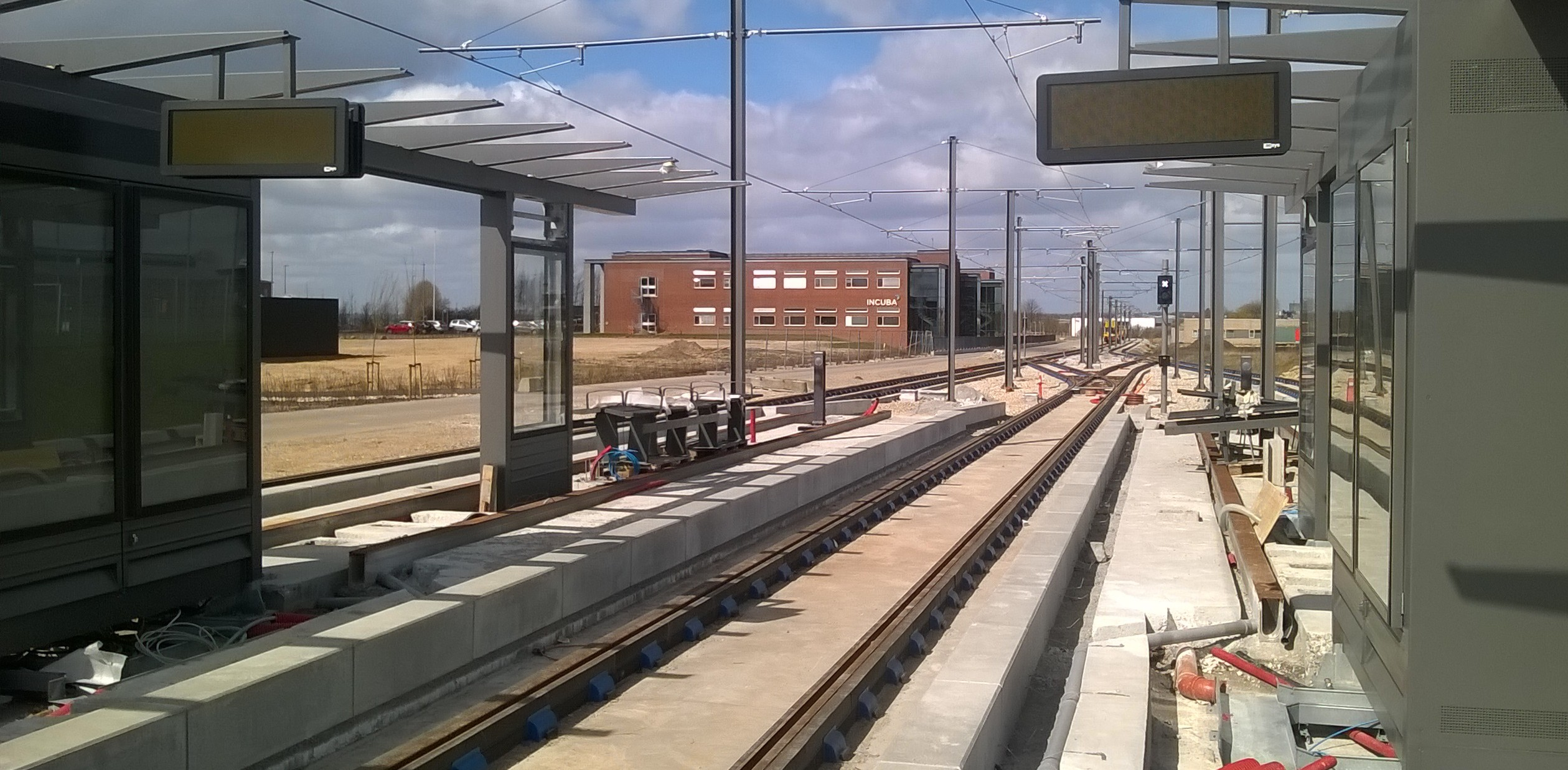 New light rail station i Skejby - Aarhus - Aarhus Universitetshospital Station.